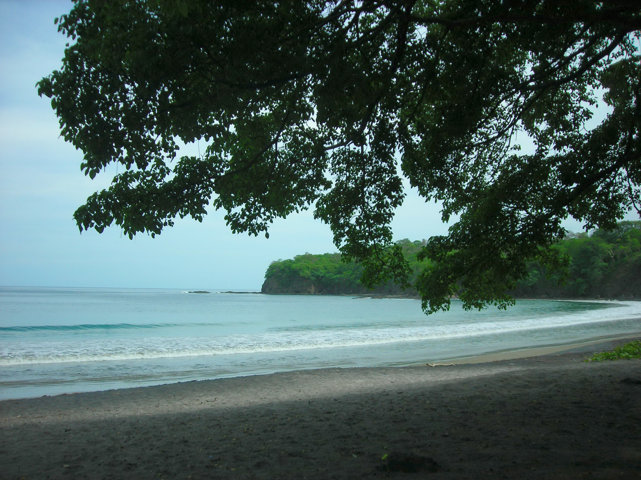 Bahia Prieta Costa Rica